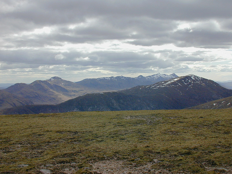 View southwest from Meall nan Eun With in the middle distance the remote Beinn nan Aighenan, and Ben Cruachan on the horizon.